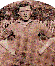 Harry Hayes